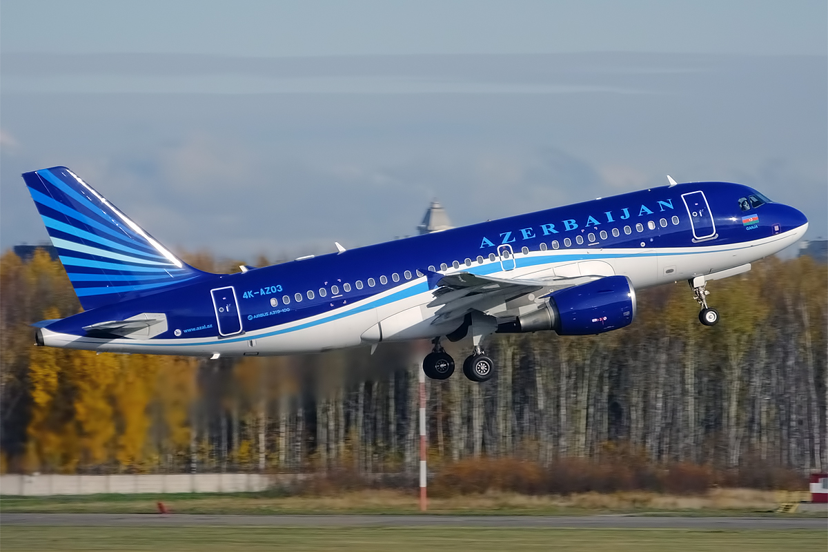 Azerbaijan Airlines, 4K-AZ03, Airbus A319-111